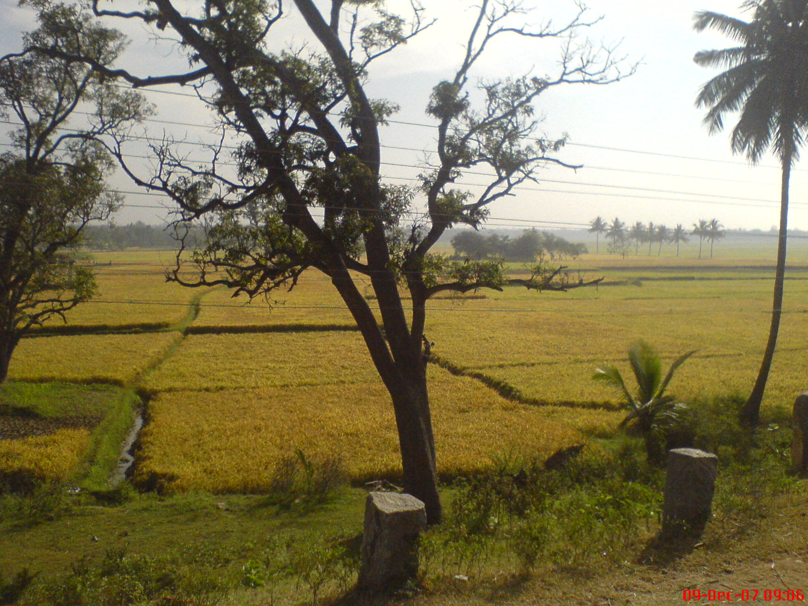 Kollegal Paddy Fields in Kollegal, state of Karnataka in India